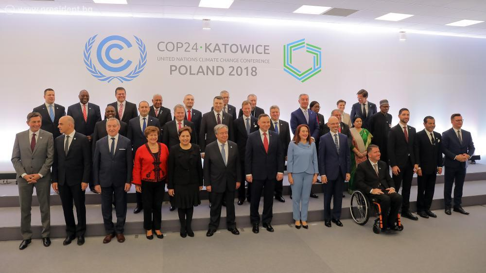 President Rumen Radev attends the UN Climate Change Conference in Katowice, Poland.